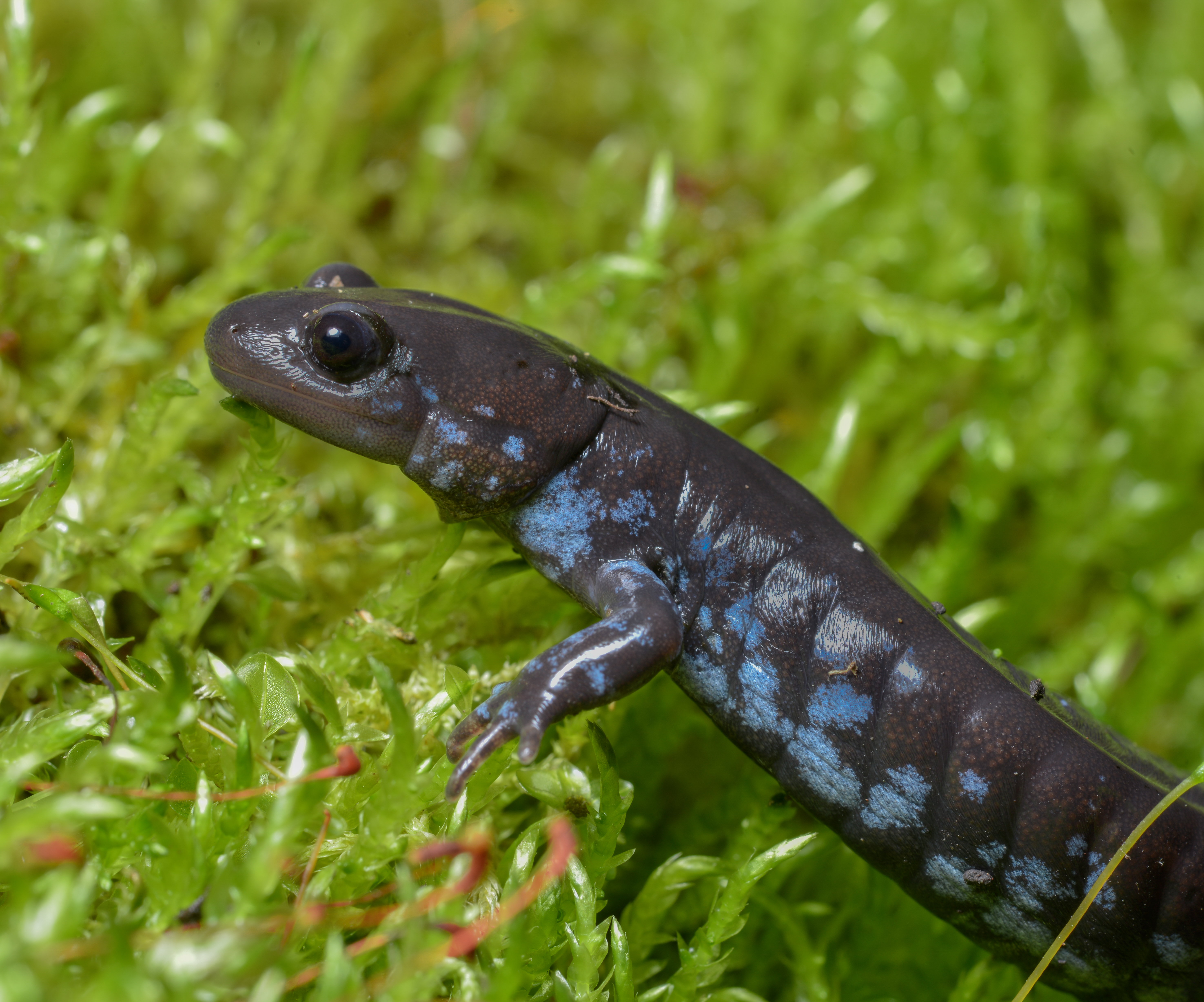 Blue-spotted Salamander